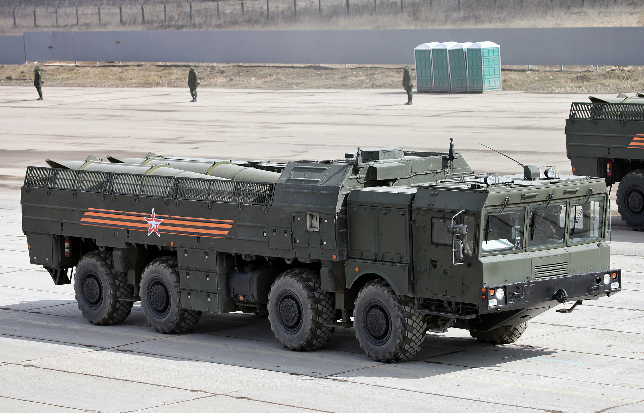 9T250 loading vehicle for Iskander-M system (during the first open rehearsal in Alabino)